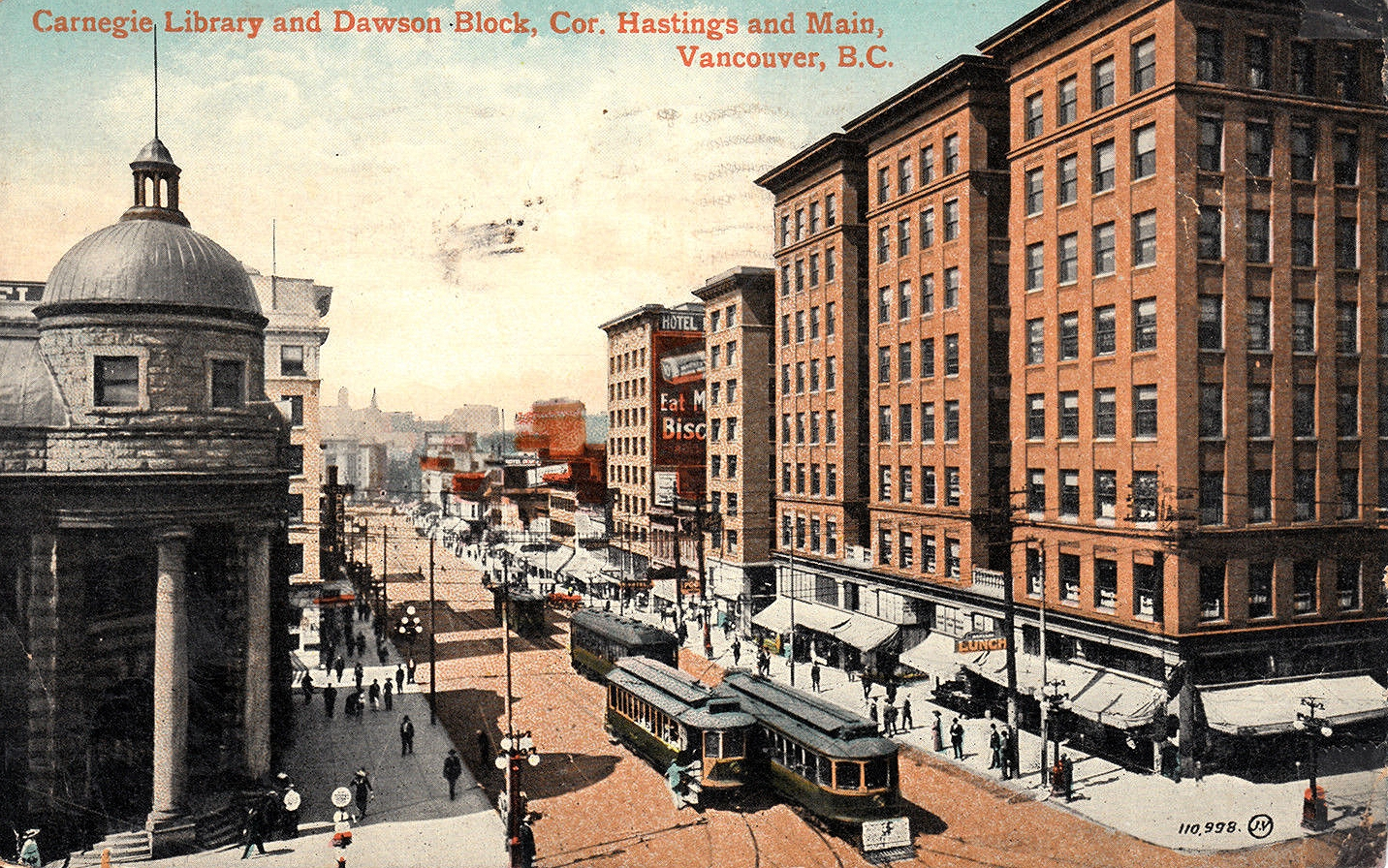 "Carnegie Library and Dawson Block, Cor. Hastings and Main, Vancouver, B.C." The Valentine & Sons' Publishing Co., Ltd. Montreal and Toronto. Printed in Great Britain. View looking west down East Hastings Street towards the 100-block from the intersection at Main Street in Vancouver, BC.